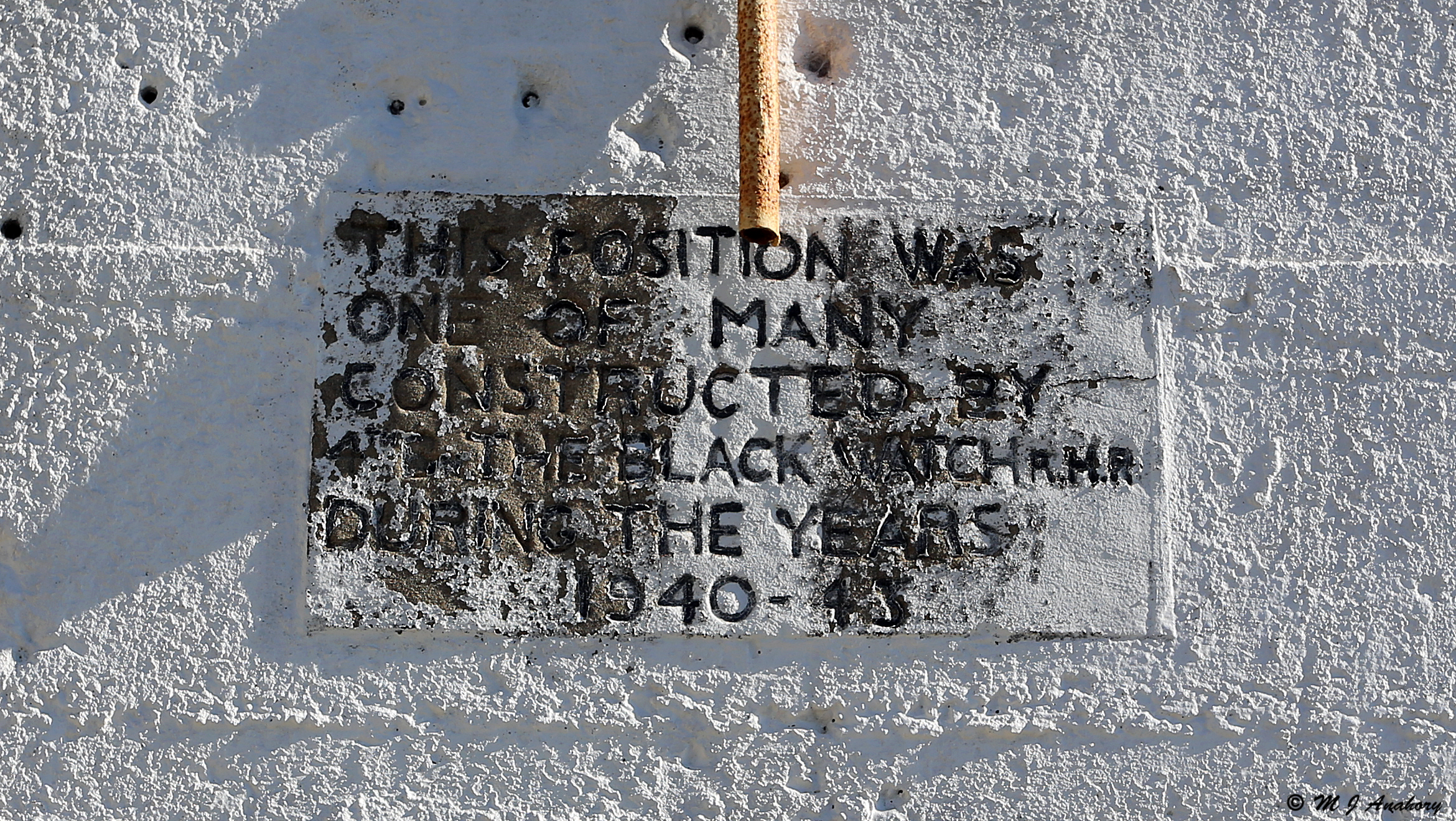 Rock Gun Battery Black Watch Plaque on the British Overseas Territory at the southern end of the Iberian Peninsula.The artillery battery is located 411.5 metres (1,350 ft) up the North Face of the Rock of Gibraltar, at the northern end of the Gibraltar Nature Reserve, above Green's Lodge Battery. Photo taken with kind permission of Fortess HQ, Gibraltar.